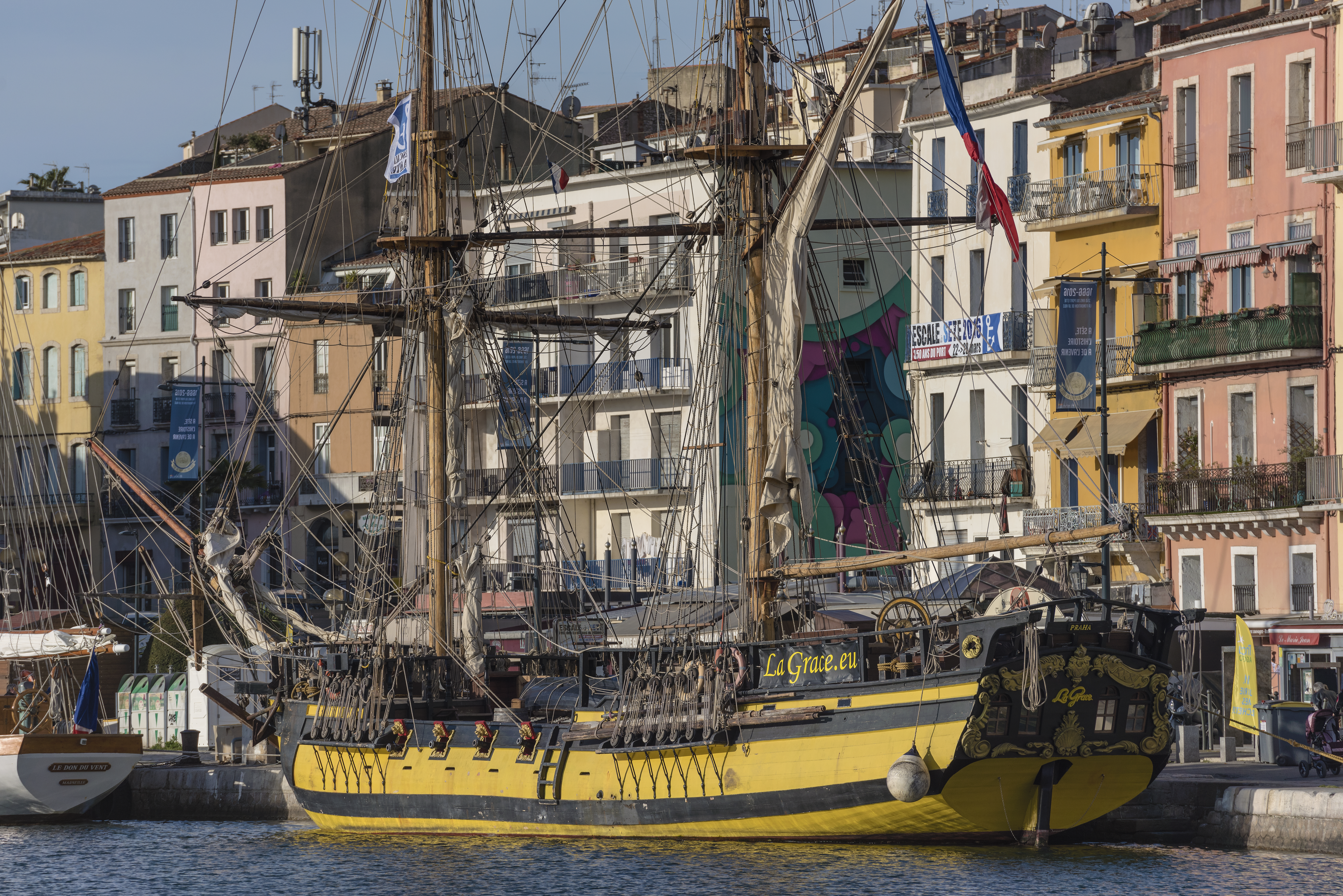 La Grace (ship, 2010). During the event "Escale à Sète 2016". Sète, Hérault, France